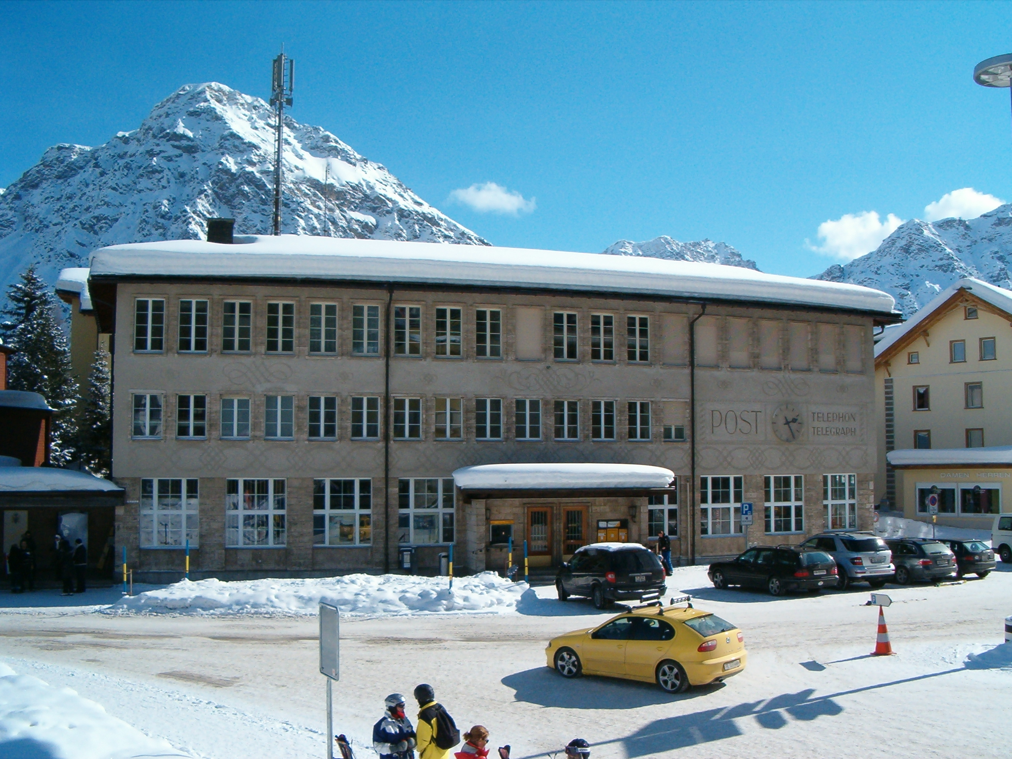 Main Post Office in Arosa/Switzerland